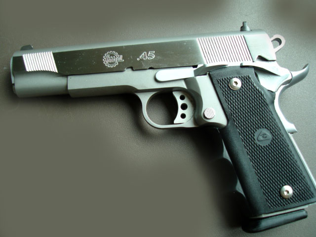 Brazilian version of 1911